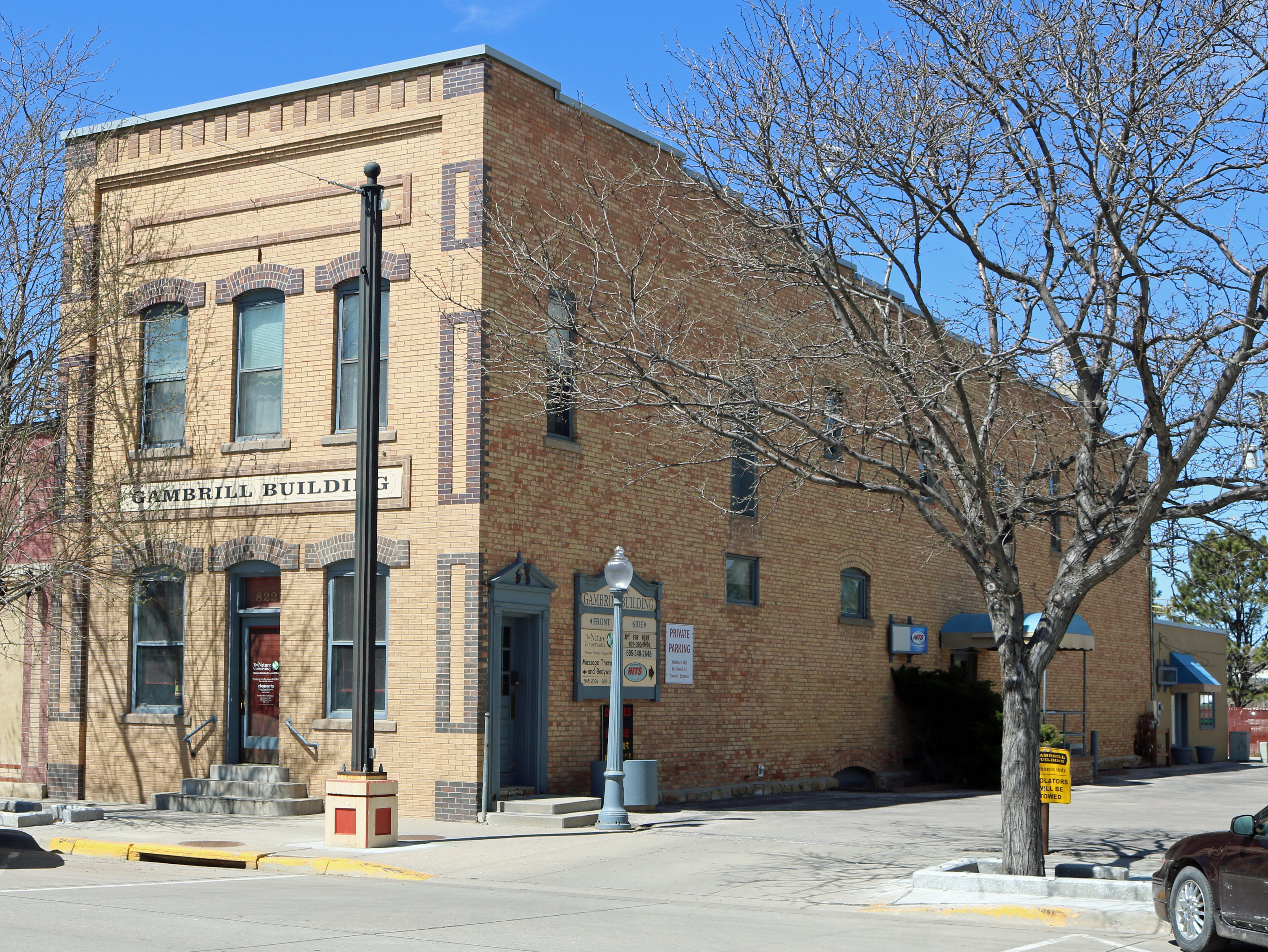 The Gambrill Storage Building, located at 822 Main Street in Rapid City, South Dakota. The property is listed on the National Register of Historic Places.